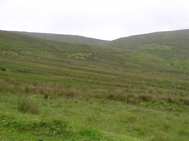 Oughtboy Townland Looking north-east